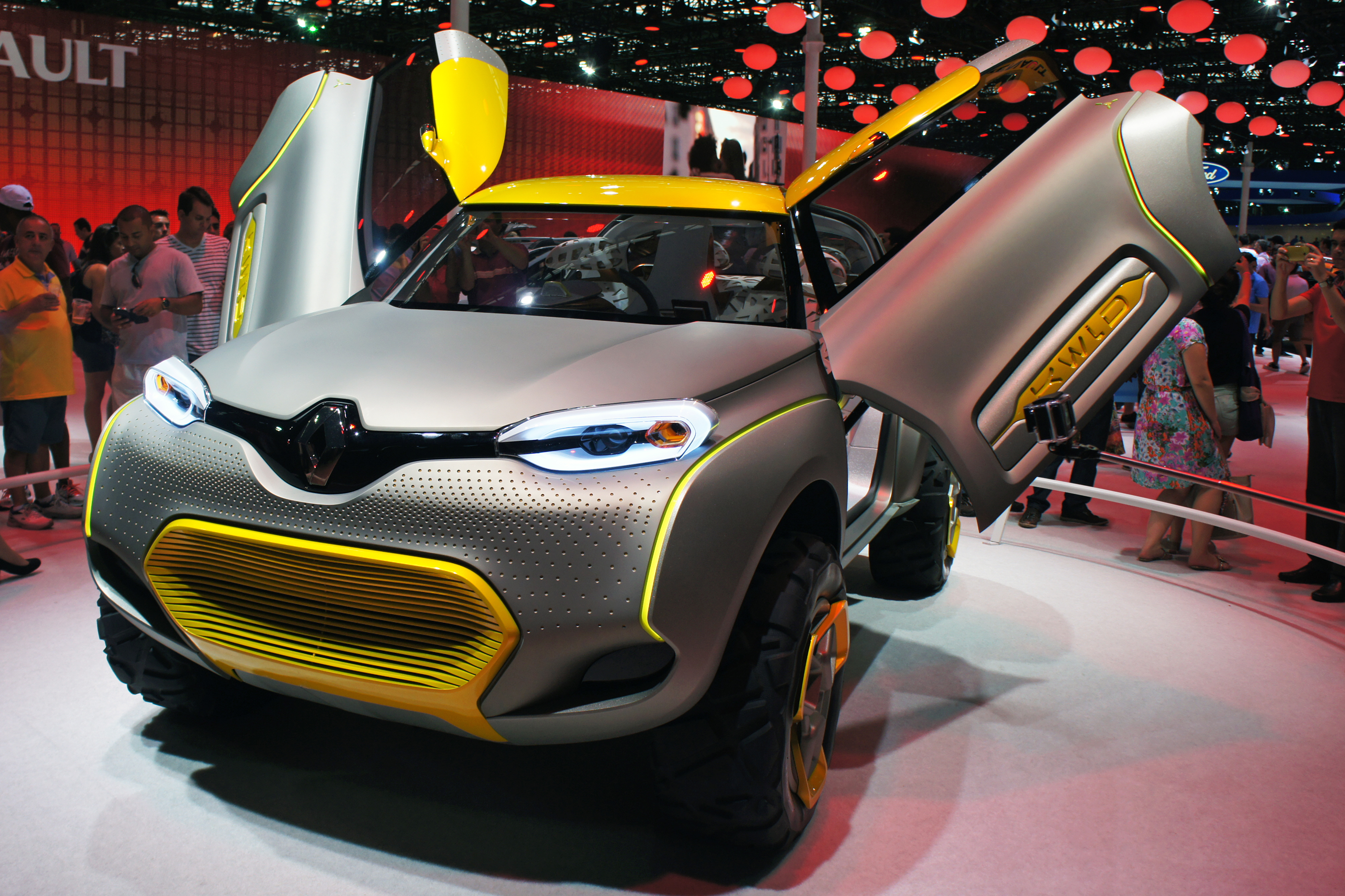 Renault KWLD concept exhibited at the Salão Internacional do Automóvel 2014 São Paulo